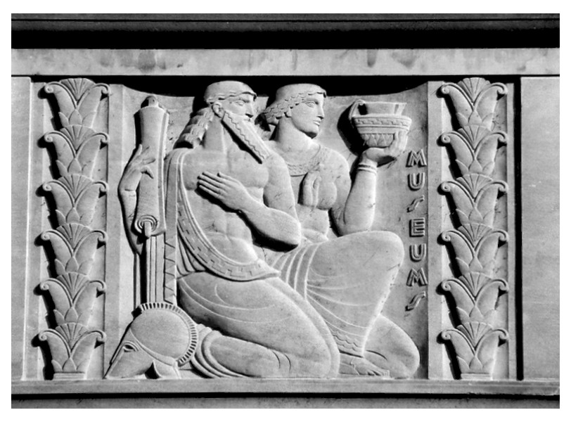 photo by Einar Einarsson Kvaran Greco Deco This panel is located on the Rackham Graduate School Building at the University of Michigan and was sculpted by Corrado Parducci.